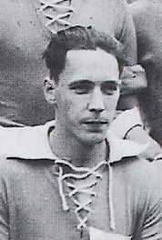 Finnish international player Kaarlo Oksanen. Cropped from File:FIN-NationalFootballTeam1933.png